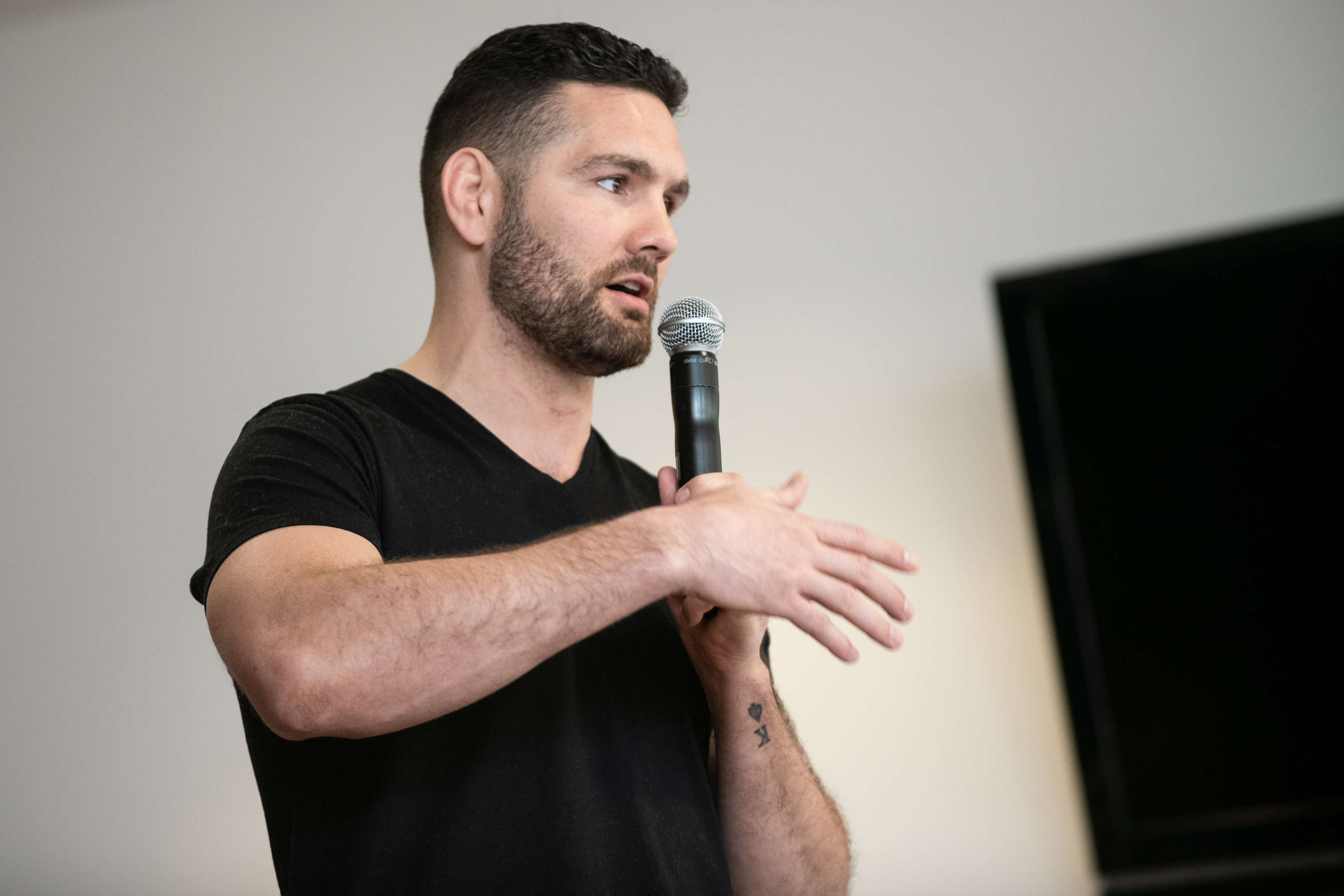 Former UFC Middleweight champion Chris Weidman answers questions during a USO show at Ramstein Air Base, Germany; the first stop on the annual Vice Chairman’s USO Tour, March 30, 2019. Country music artist Craig Morgan, Celebrity chef Robert Irvine, UFC Hall of Famer BJ Penn, professional mixed martal artist Felice Herrig, two-time MLB World Series champion Shane Victorino; and professional surfer Makua Rothman will join Air Force Gen. Paul J. Selva, vice chairman of the Joint Chiefs of Staff, on a tour across the world as they visit service members overseas to thank them for their service and sacrifice. (DoD Photo by U.S. Army Sgt. James K. McCann)